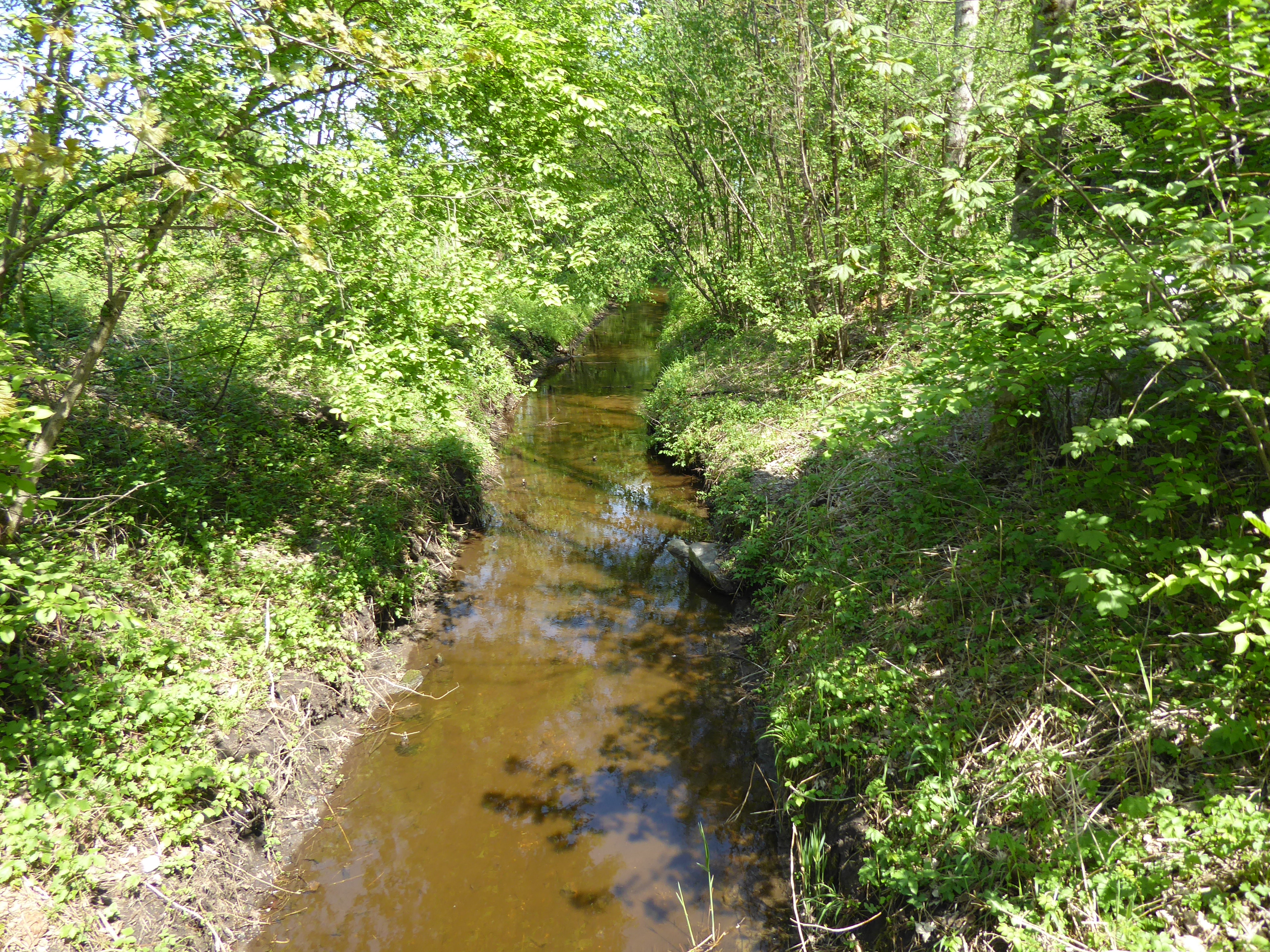 The river Aschach (tributary of the Rott, being itself a tributary of the Inn at Rott am Inn), Bavaria, Germany. Direction of flow from the foreground to the background.